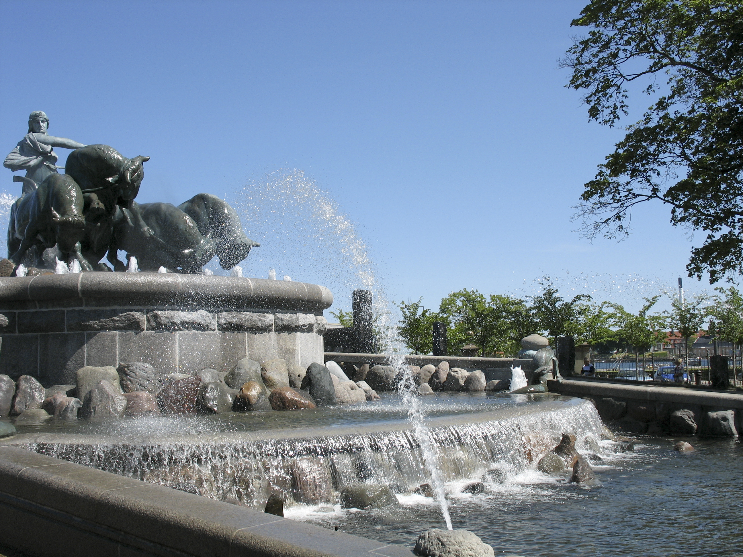 Gefion fountain, Copenhagen